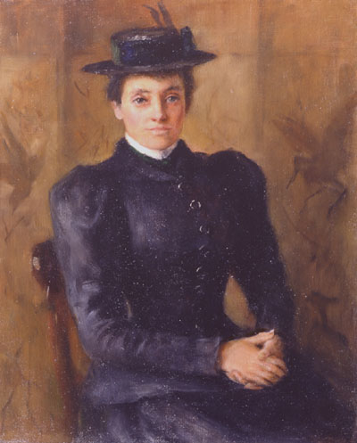 Portrait of Jenny Yeats, oil on canvas, 50.8 x 40.7 cms (20 x 16 ins)